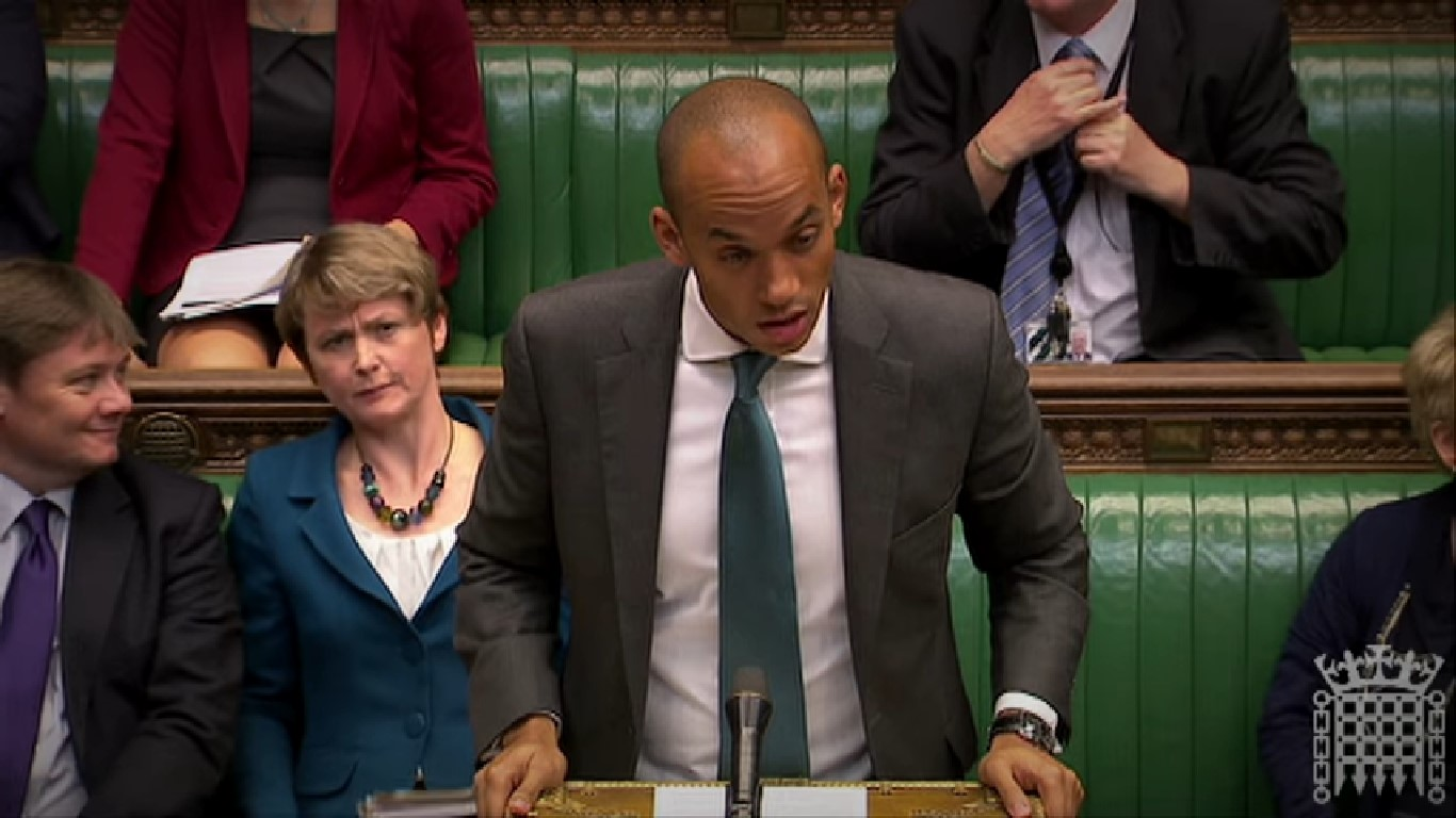 Chuka Umunna MP, Shadow Secretary of State for Business, Innovation & Skills, asks a urgent question from the opposition dispatch box in the Commons chamber.